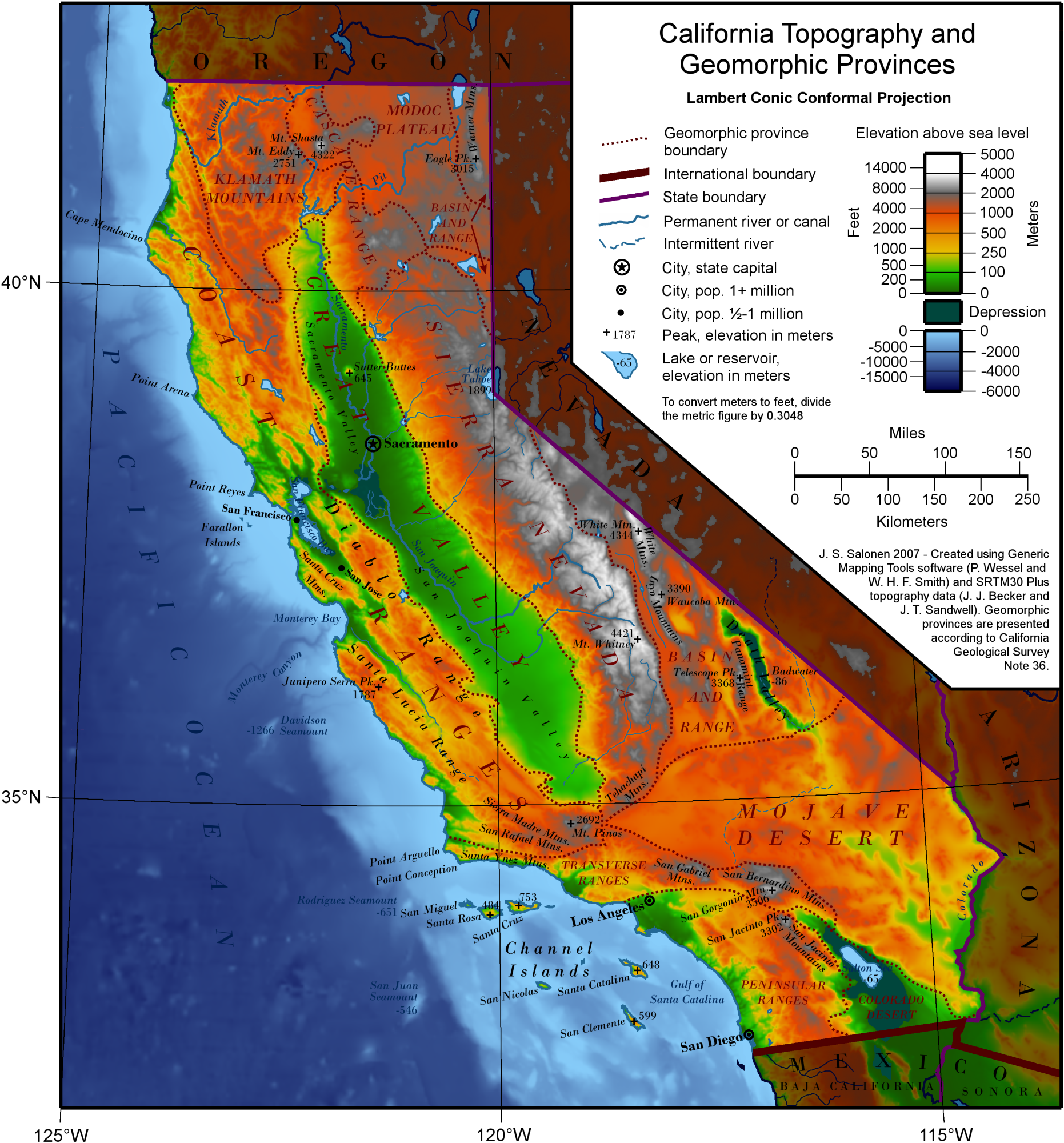 A map of California showing topography and geomorphic provinces.